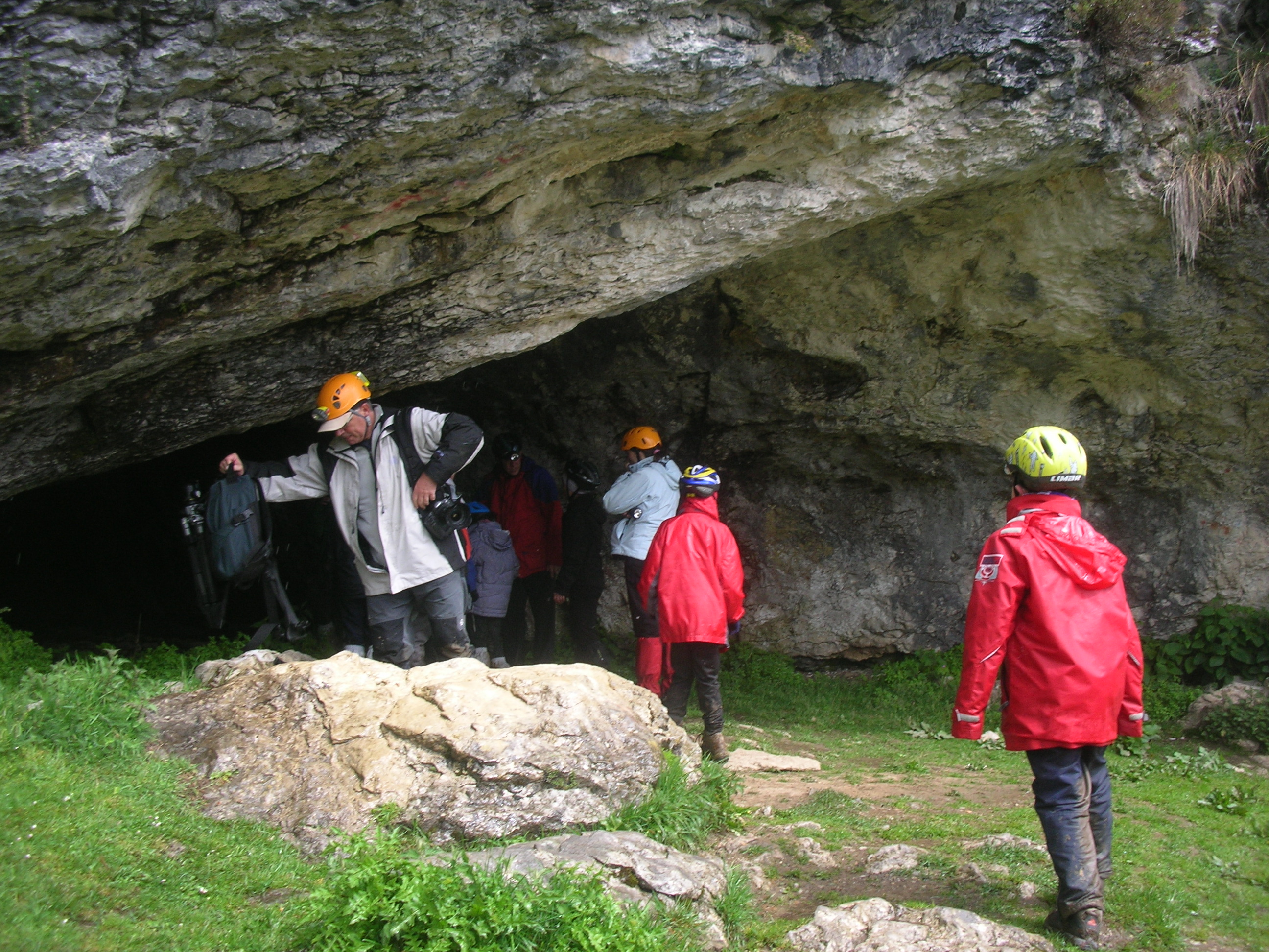 Entrance of Mairulegorreta cave, in Gorbeia, by the Araba side.